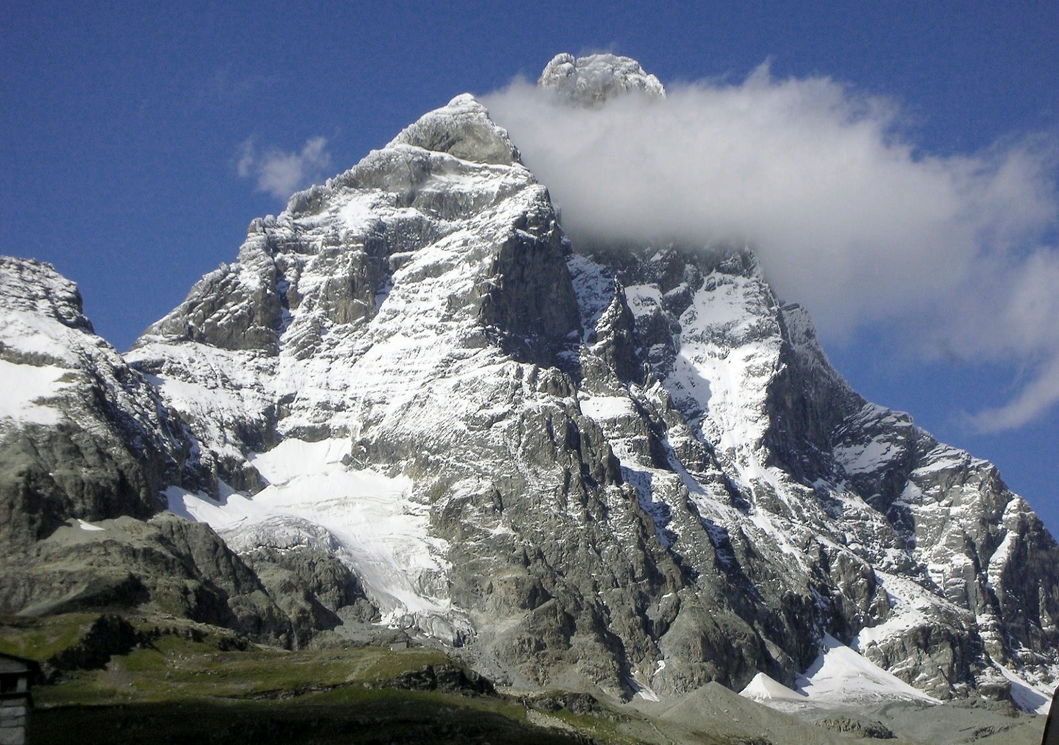 The Matterhorn, viewed from above Cervinia